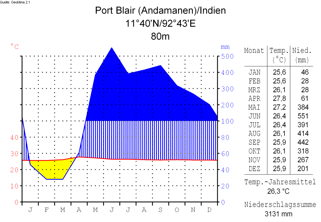 climate chart in the format by Walter and Lieth, metric, °Celsisus and millimeters, made with Geoklima 2.1